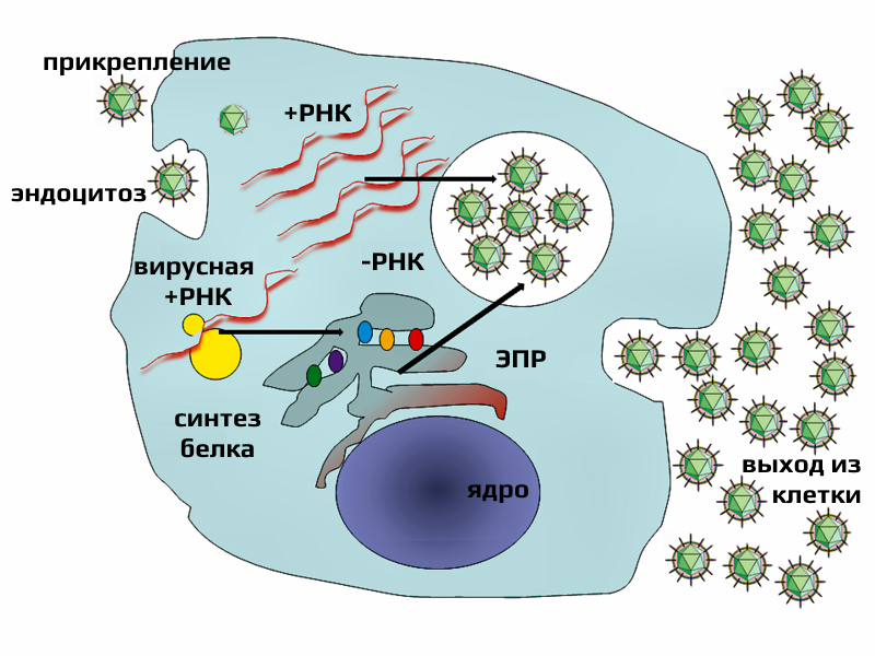 HepC replication in russian